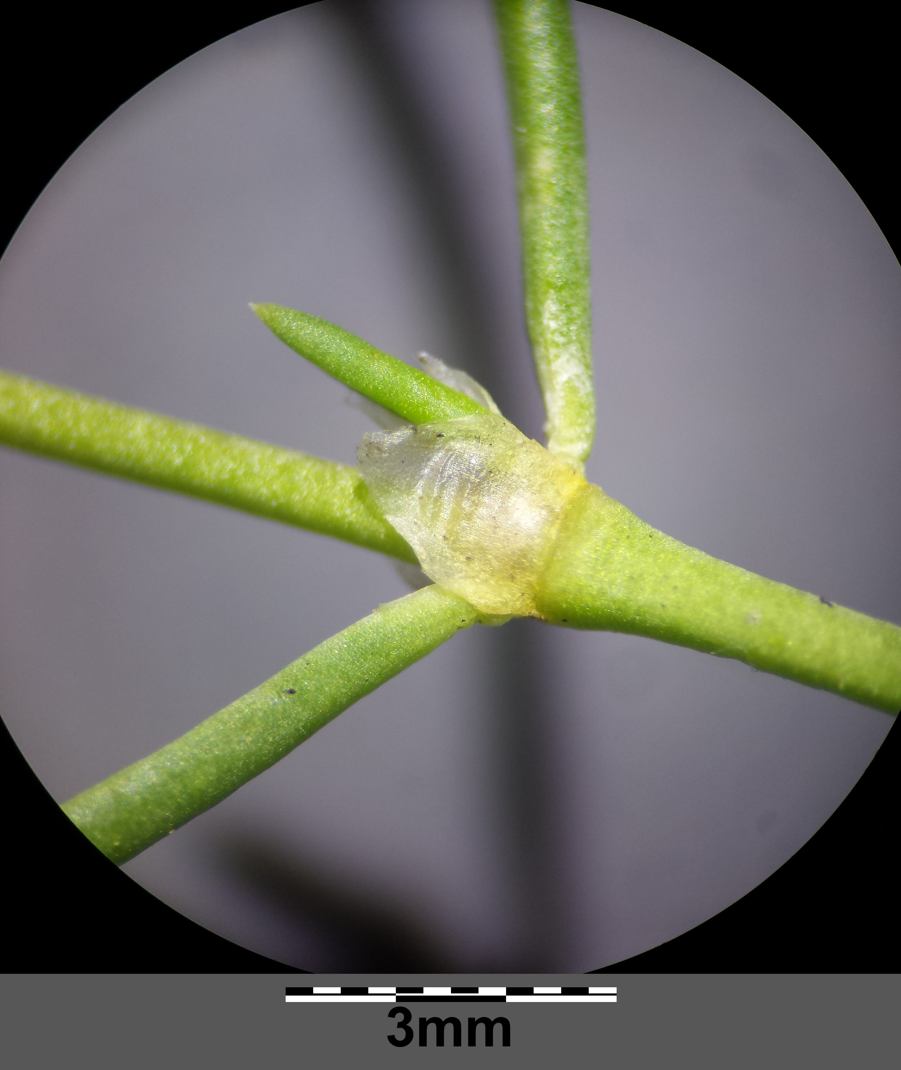 Stipe with leaves and stipules Taxonym: Spergularia maritima ss Fischer et al. EfÖLS 2008 ISBN 978-3-85474-187-9 Location: next to Zwingendorfer, district Mistelbach, Lower Austria - ca. 185 m a.s.l. Habitat: fallow land